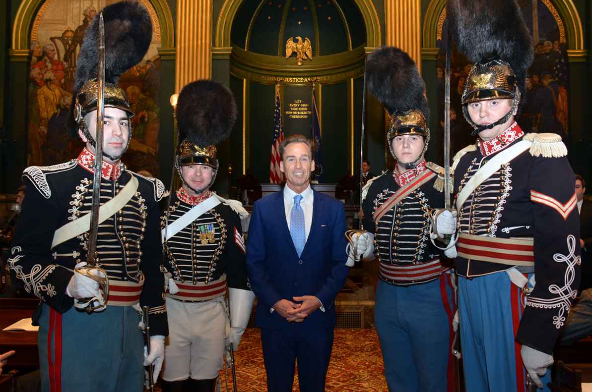 Members of the First Troop Philadelphia City Cavalry serve as honor guard during the inaugural ceremony for the administration of the oath of office to Pennsylvania Lt. Gov. Mike Stack at the Capitol, Jan. 20, 2015. Stack serves as a captain and staff judge advocate in the Pennsylvania National Guard's 28th Infantry Division. (U.S. Air National Guard photo by Tech. Sgt. Ted Nichols/Released)